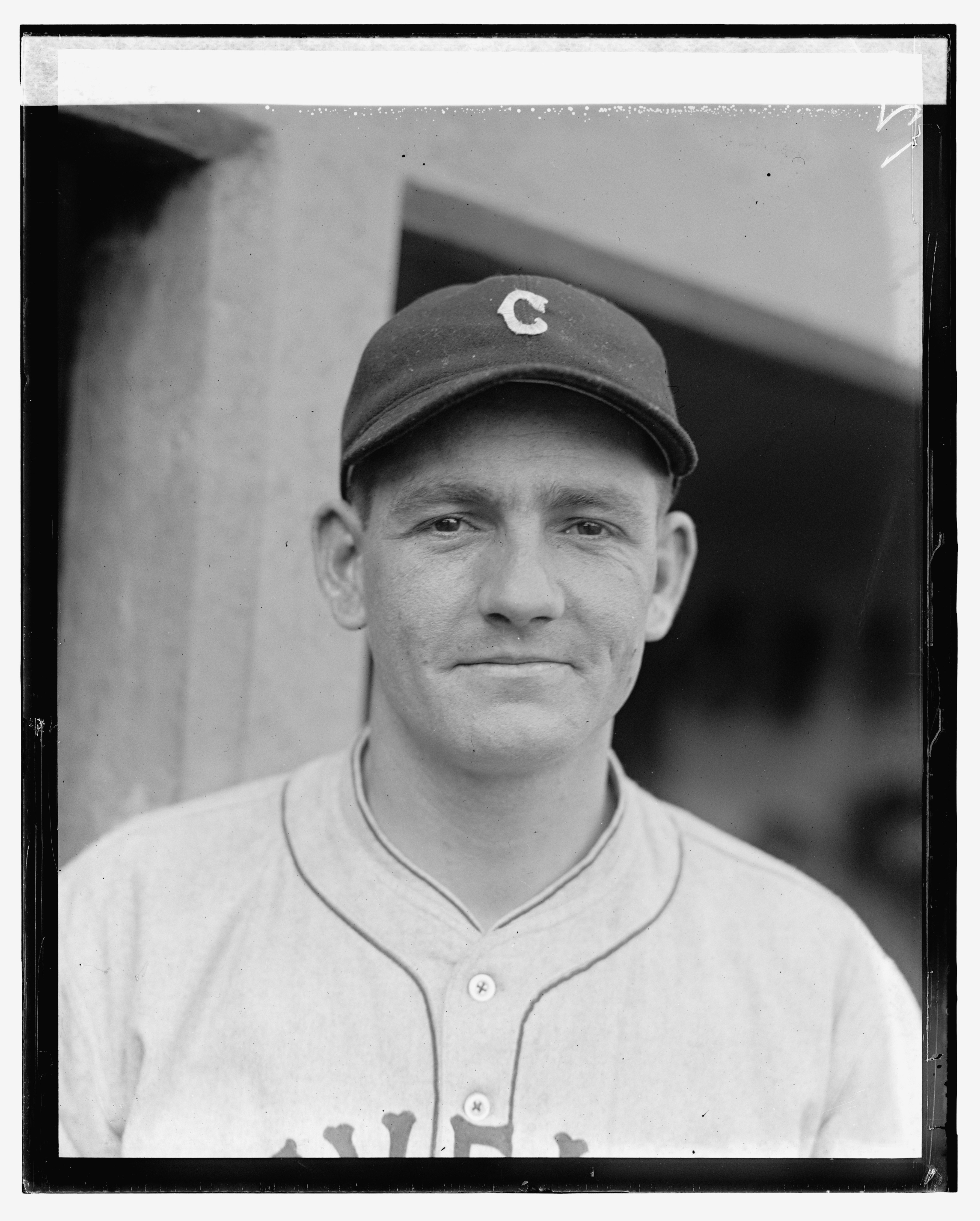 Title: Drake, Cleveland, 1924 Abstract/medium: National Photo Company Collection (Library of Congress) Physical description: 1 negative